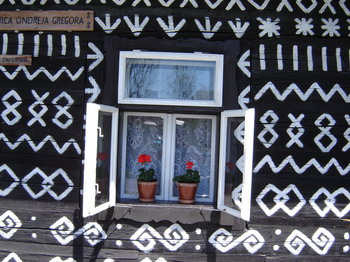 Window with sample of folkish ornament in Slovak village Čičmany